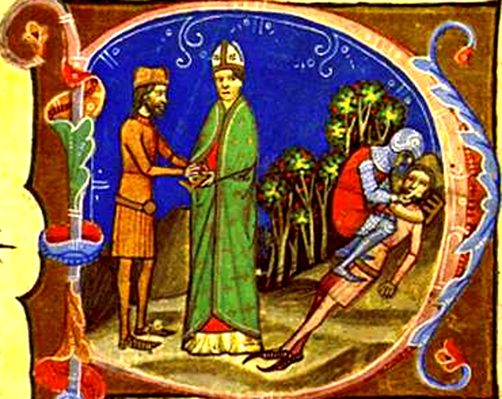 Andrew I. welcoming and the blinding of Peter